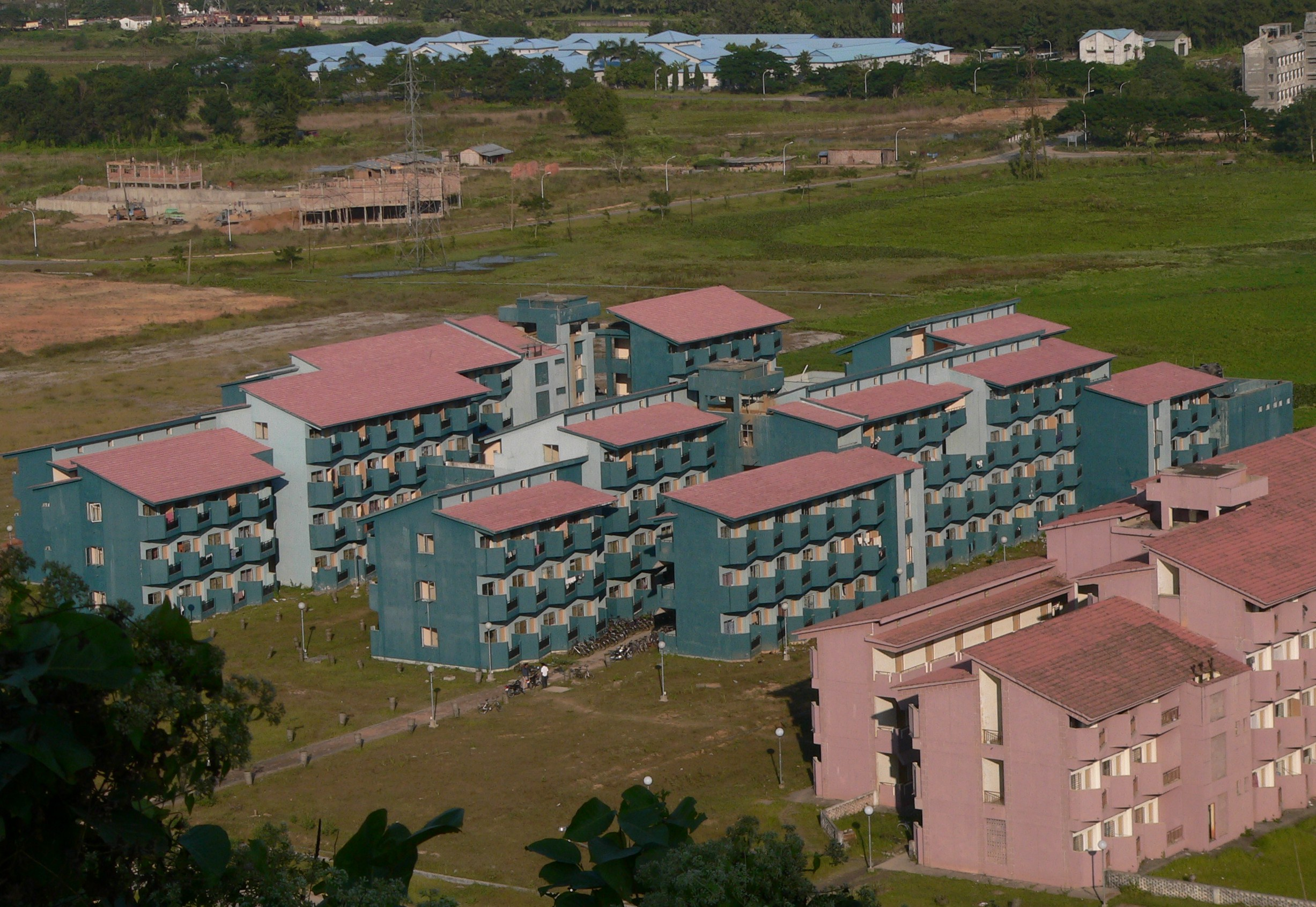 Hostels of IIT Guwahati